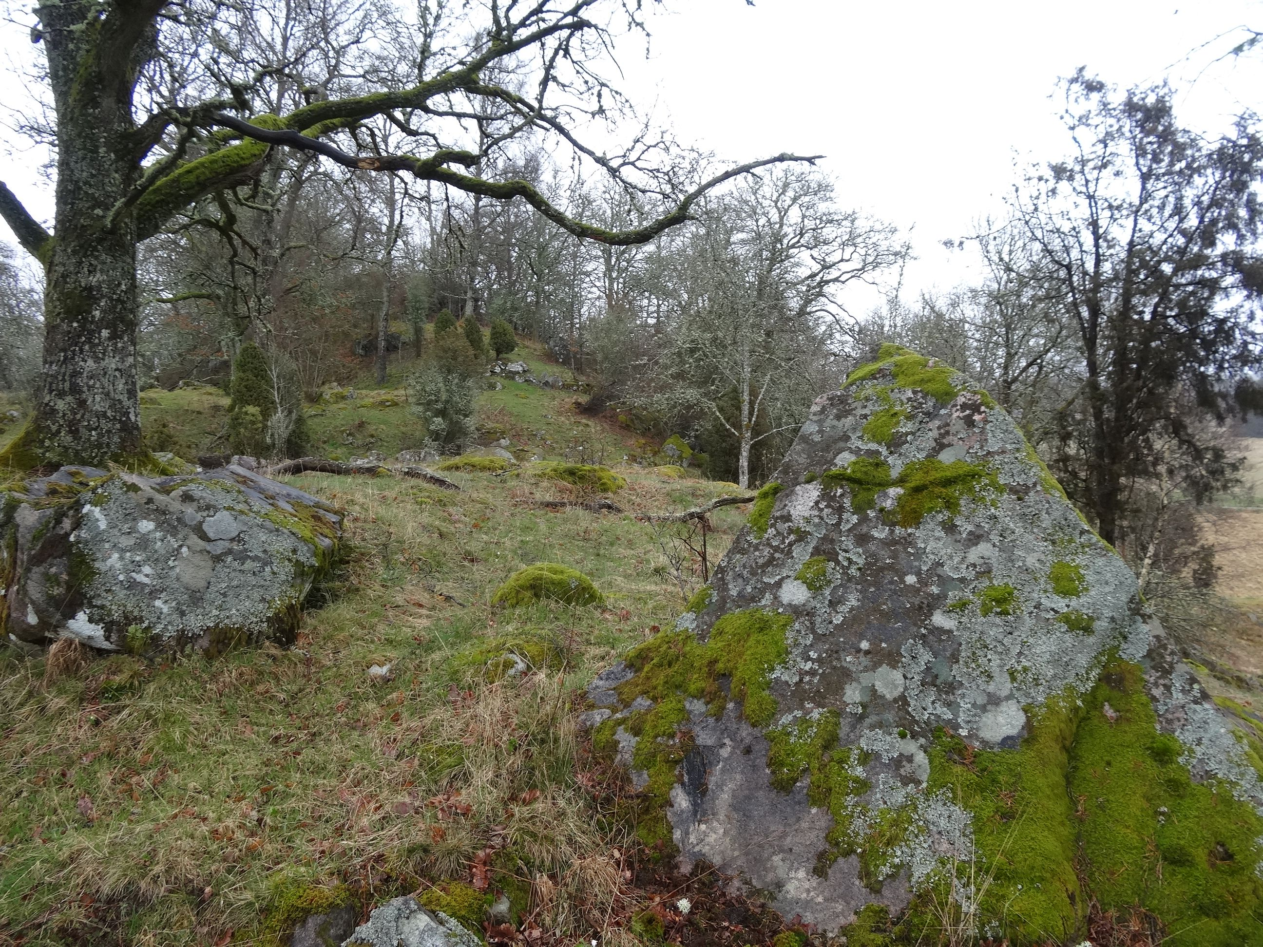 Through the remnants of a curtain wall, a staircase is leading up to the keep of castle Opensten north of Limmared, Sweden.